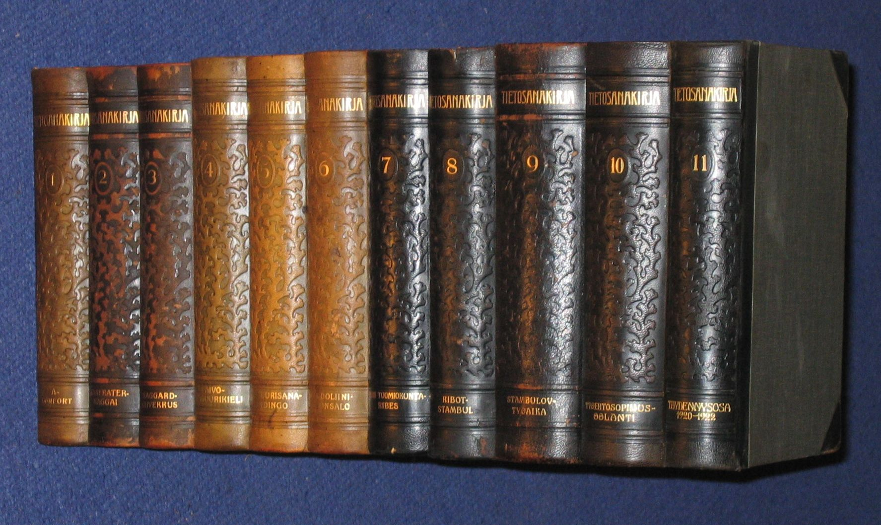 Book covers. "Tietosanakirja", 11 volumes, 1909-1922, Finnish encyclopedia.